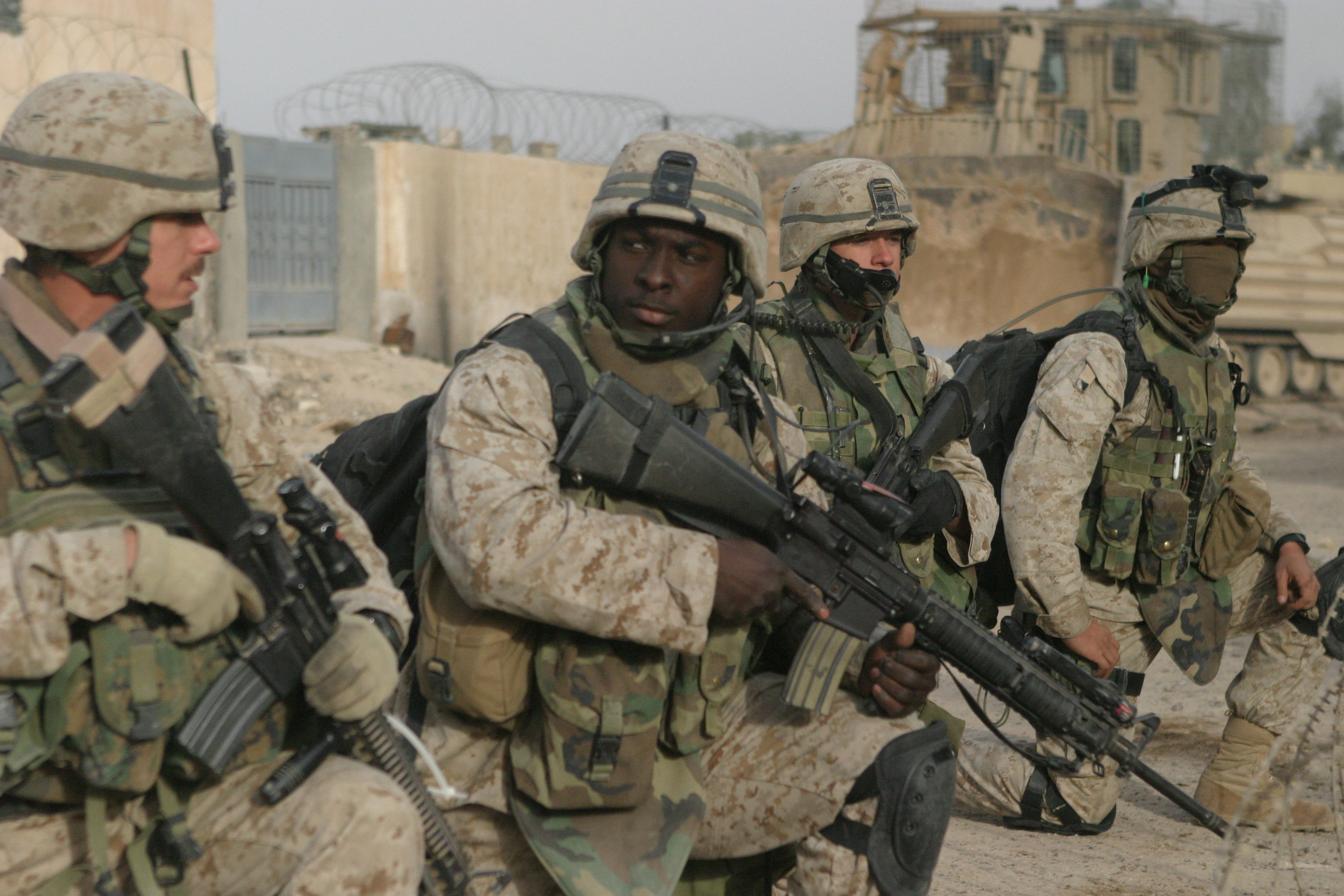 U.S. Marines prepare to step off on a patrol through the city of Fallujah, Iraq, to clear the city of insurgent activity and weapons caches as part of Operation al Fajr (New Dawn) on Nov. 26, 2004. The Marines are (from left to right) Platoon Sergeant Staff Sgt. Eric Brown, Machine Gun Section Leader Sgt. Aubrey McDade, Radio Operator Cpl. Steven Archibald, and Combat Engineer Lance Cpl. Robert Coburn. All are assigned to 1st Battalion, 8th Marine Regiment, 1st Marine Division conducting security and stabilization operations in the Al Anbar Province of Iraq.